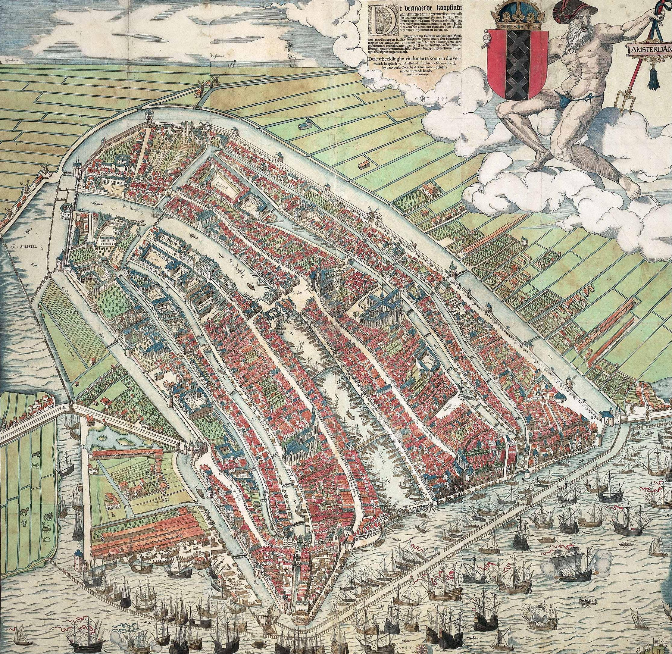 A bird's eye view of Amsterdam looking south. This is the city before the construction of the semi-circular ring of canals. It is bordered by the IJ, the Singel in the west, and the Kloveniersburgwal/Gelderse Kade in the east. The waterway in the middle (connecting the Dam with the IJ) is known as the Damrak. Ships were unloaded on the west bank of the Damrak, indicated on the map as ‘Opt Waeter’ (on the water). Woodcut by Cornelis Anthonisz. made in 1544 after an oil painting of his own making from 1538. This version is a reprint, published by Ian Iansz. around 1557.